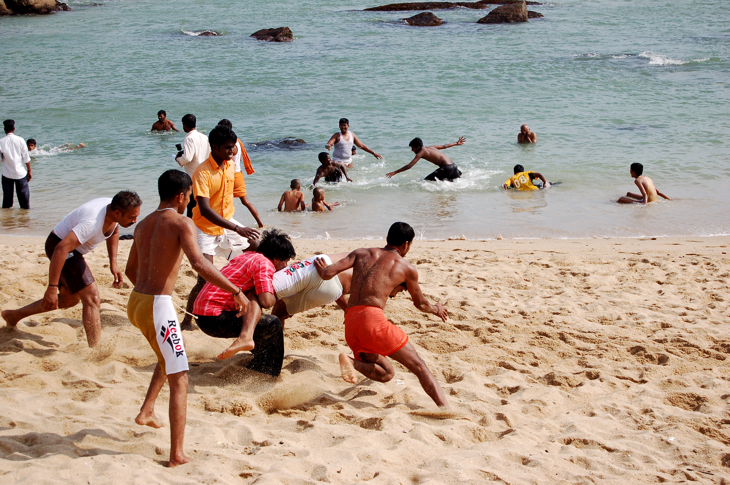 Sport on a Tamil Nadu Beach, India. Kabbaddi, Kabaddi or Cabadi is a team sport played on beaches or mainland.